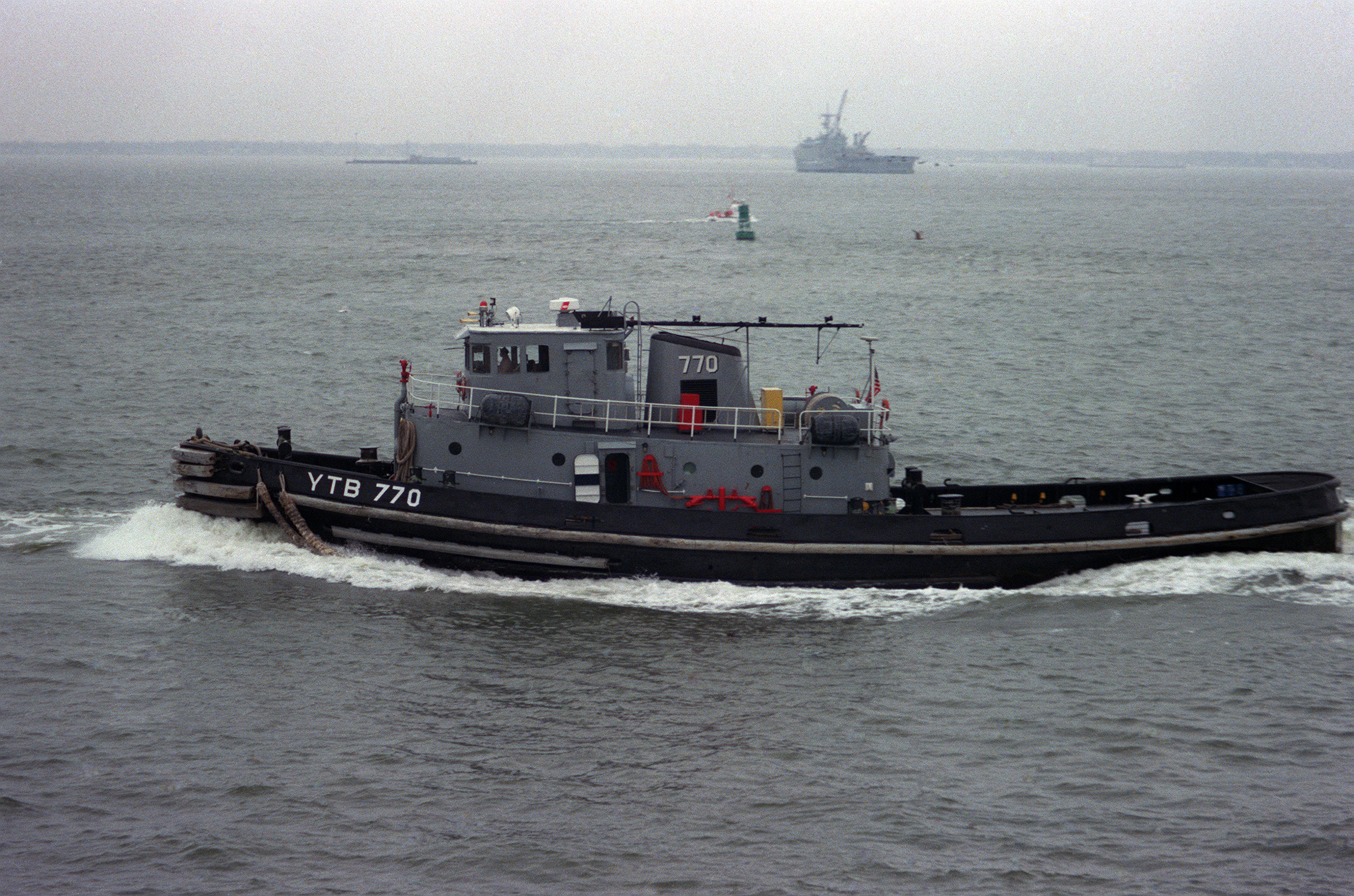 Dahlonega (YTB-770) underway off the end of Pier 12 at NOB Norfolk, VA., 1 March 1989. DVIC photo # DN-SC-90-03825, a US Navy photo by PH2 Mark E Heim, now in the collections of the Defense Visual Information Center.